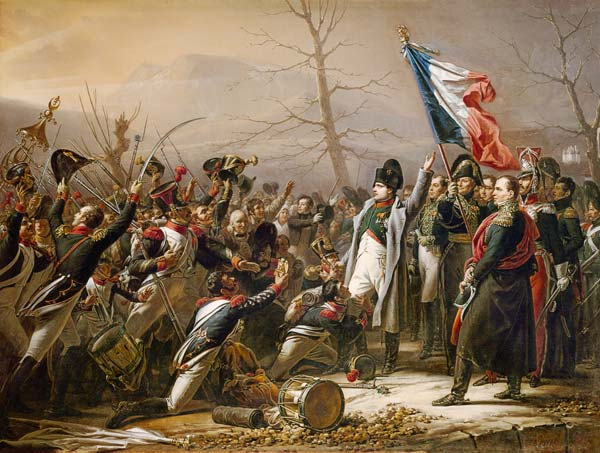 Napoleon's return from Elba